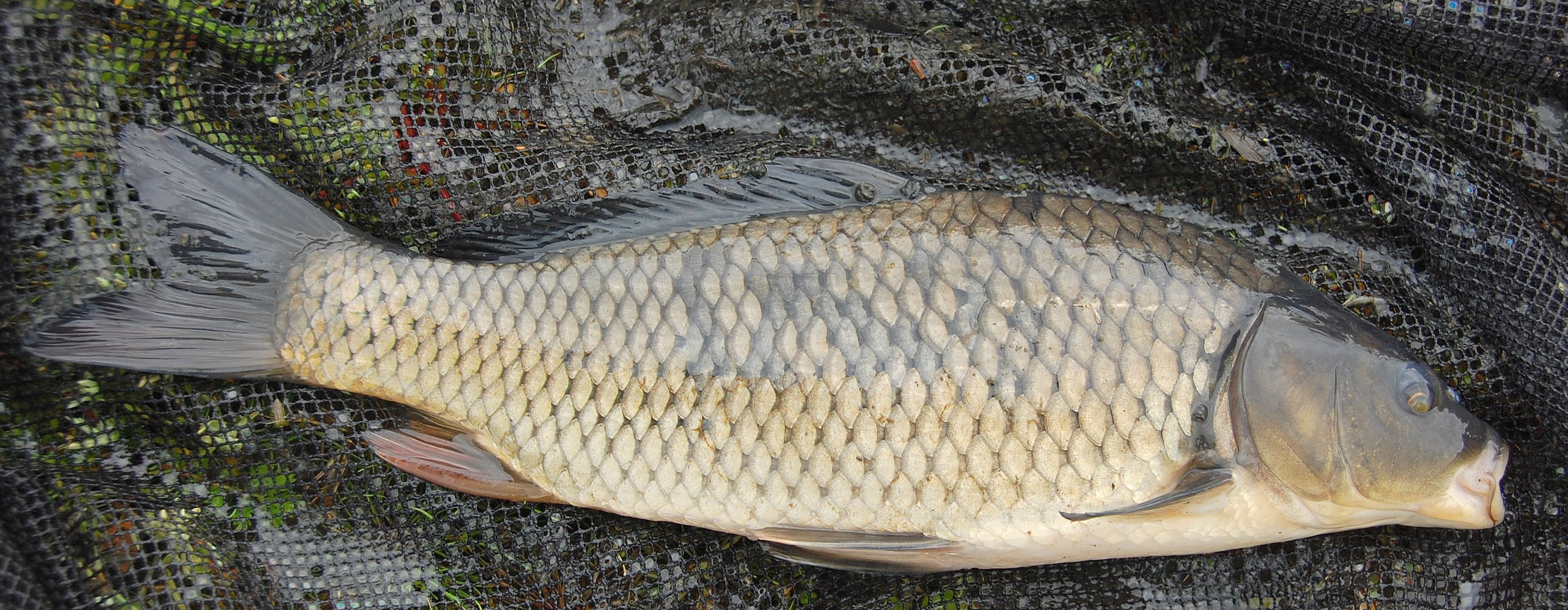 Dutch wild carp ca 50 cm. Dutch wild carp are found mainly to the North and West of Amsterdam. Other populations are considered feral carp. The carp has been present here since the 13th century. There are also populations of feral carp in the Haarlemmermeer (mixed with occasional wild carp), The province Zeeland in brackish waters and Flevoland and other places. Wild carp lacks red color on the fins, it has a mouth that is pointing forward when protruded, lacks the hump of the back behind the head and the flesh is red.Viridiflavus (talk) 13:59, 22 October 2009 (UTC)